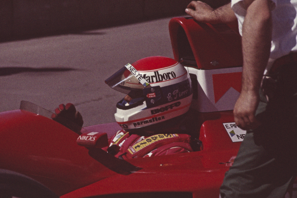 Emanuele Pirro driving for Dallara at the 1991 US Grand Prix.